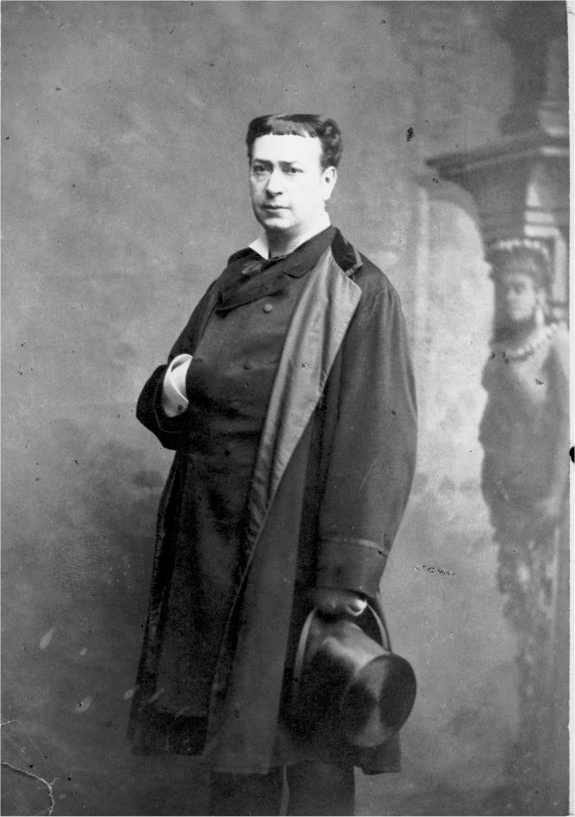 Adolf von Sonnenthal, austrian actor of jewish-hungarian descent